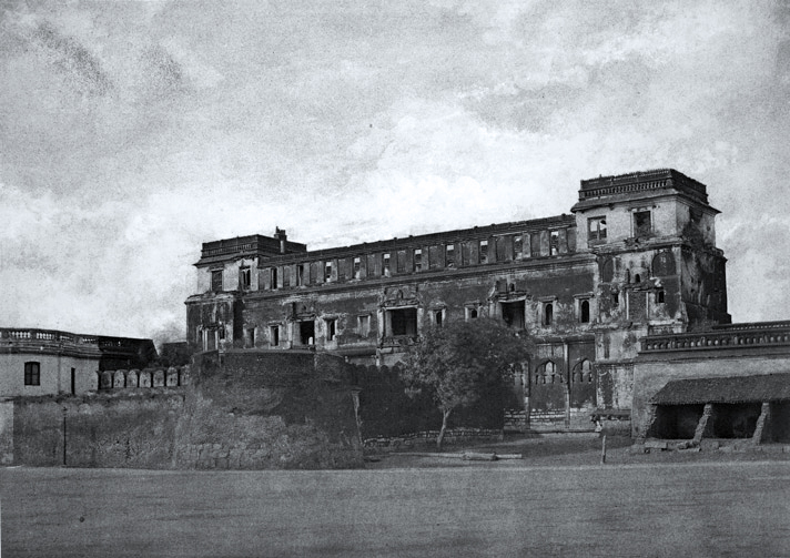 This is a 1858 photograph of the 'Chokkanatha Nayak Palace', now known as 'Rani Mangammal Mahal', located in the city of Tiruchirapalli, India. The palace was built in mid seventeenth century Palace, by the Madurai Nayak rulers. Now houses the Government Museum and is located near the base of Tiruchirapalli Rock Fort.